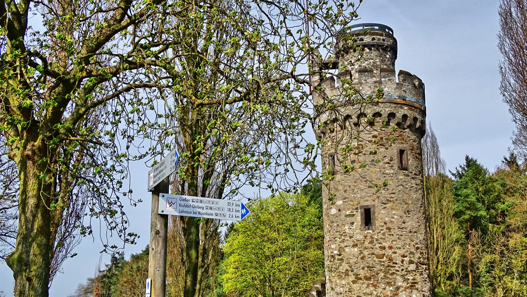 Bismarckturm oder Garbenheimer Warte bei Wetzlar mit Wegweiser des Lahnwanderwegs im Vordergrund.